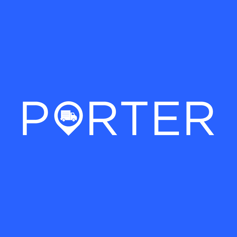 This is Porter's Logo used during marketing communications.